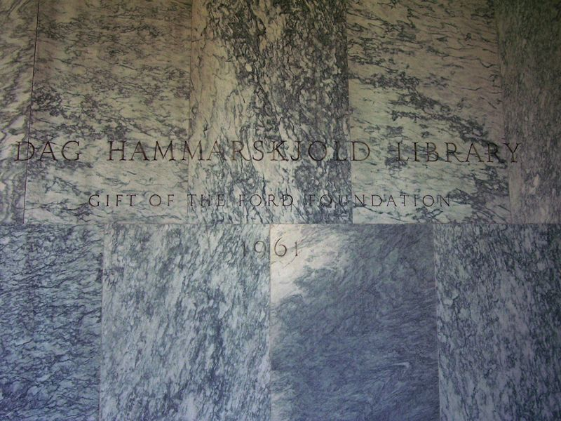 Dag Hammarskjöld Library entrance sign (etched on marble), United Nations Headquarters, New York City. Photograph credit: Rodsan18